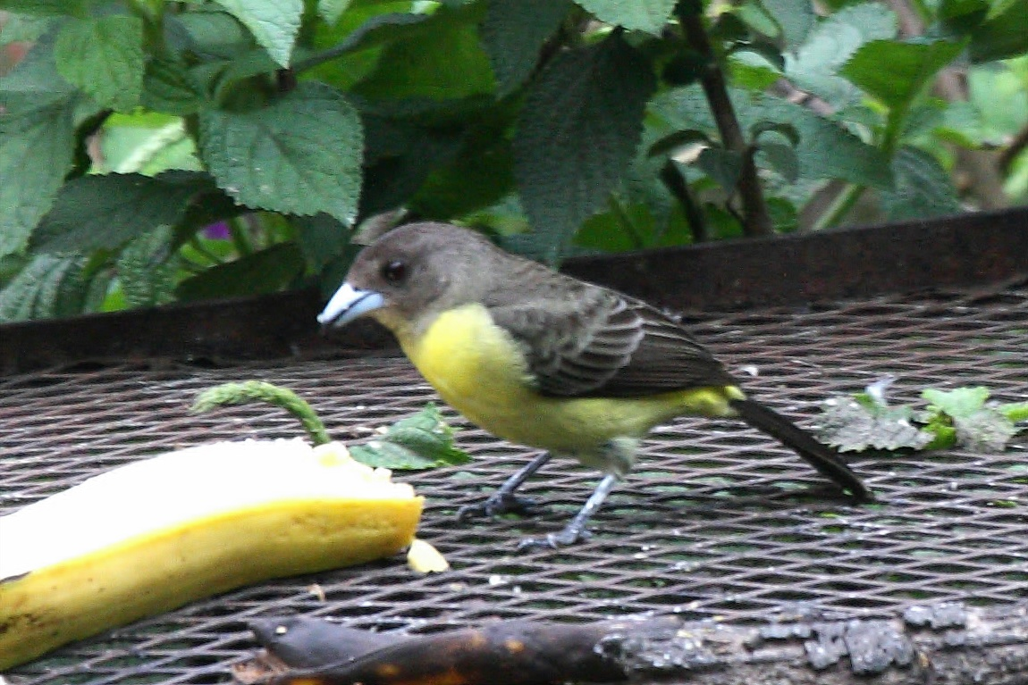 Flame-rumped Tanager, also known as Lemon-rumped Tanager